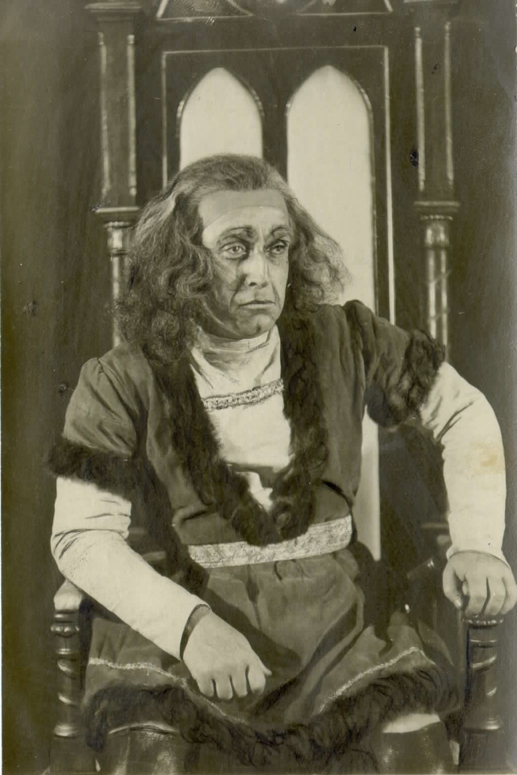 Ivan Levar (1888-1950), Slovene actor and vocalist.